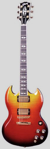 guitar Gibson SG supreme